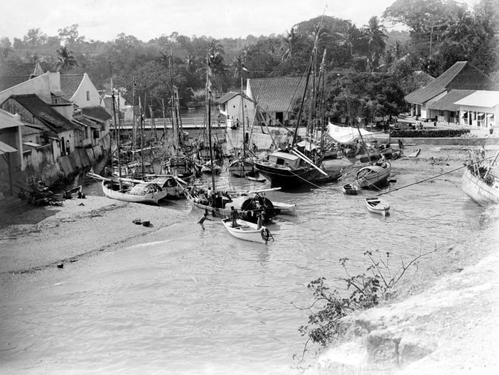 The habour of Kupang - Timor